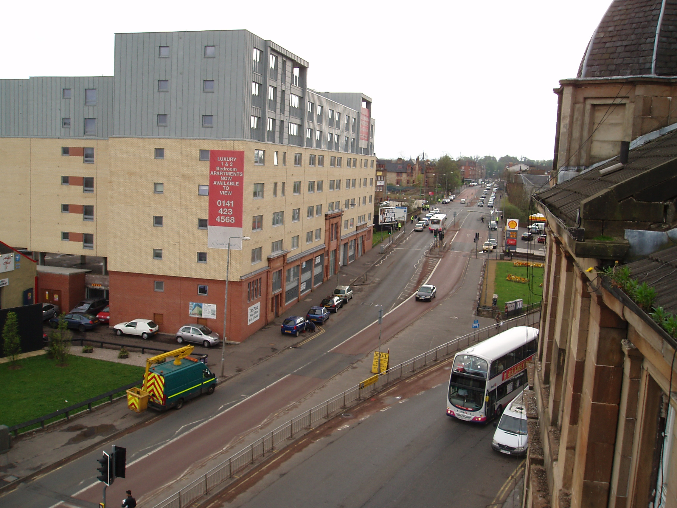 Eglinton Street Glasgow